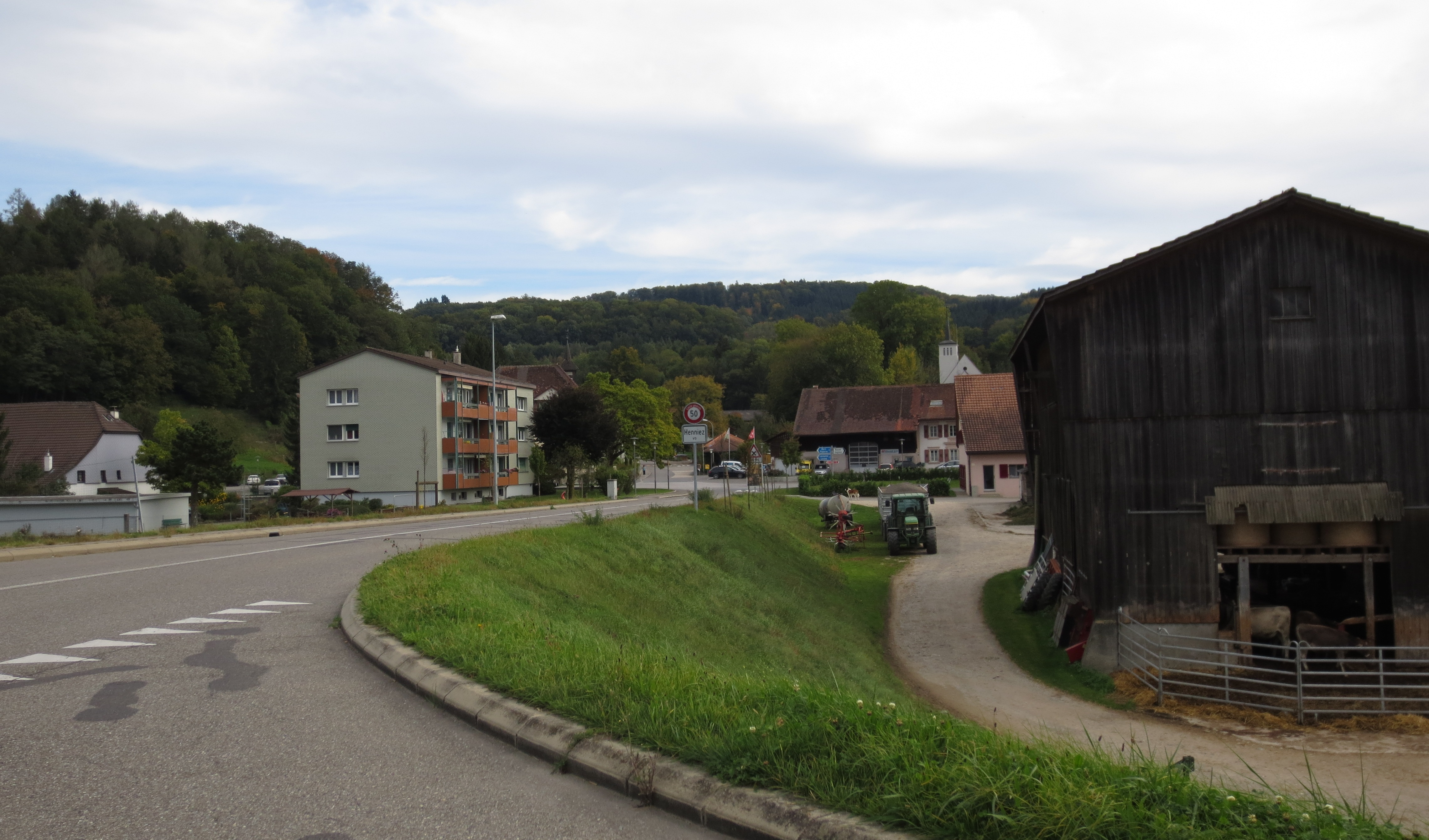 Henniez, canton of Vaud, Switzerlanf